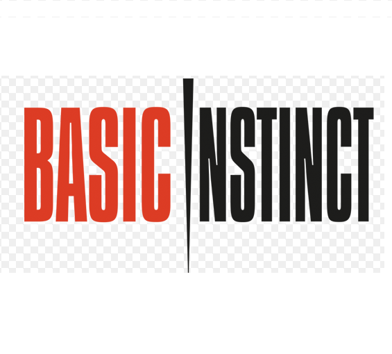 Basic instinct